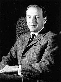 Photograph of the Finnish politician Martti Ursin (1934–2011).